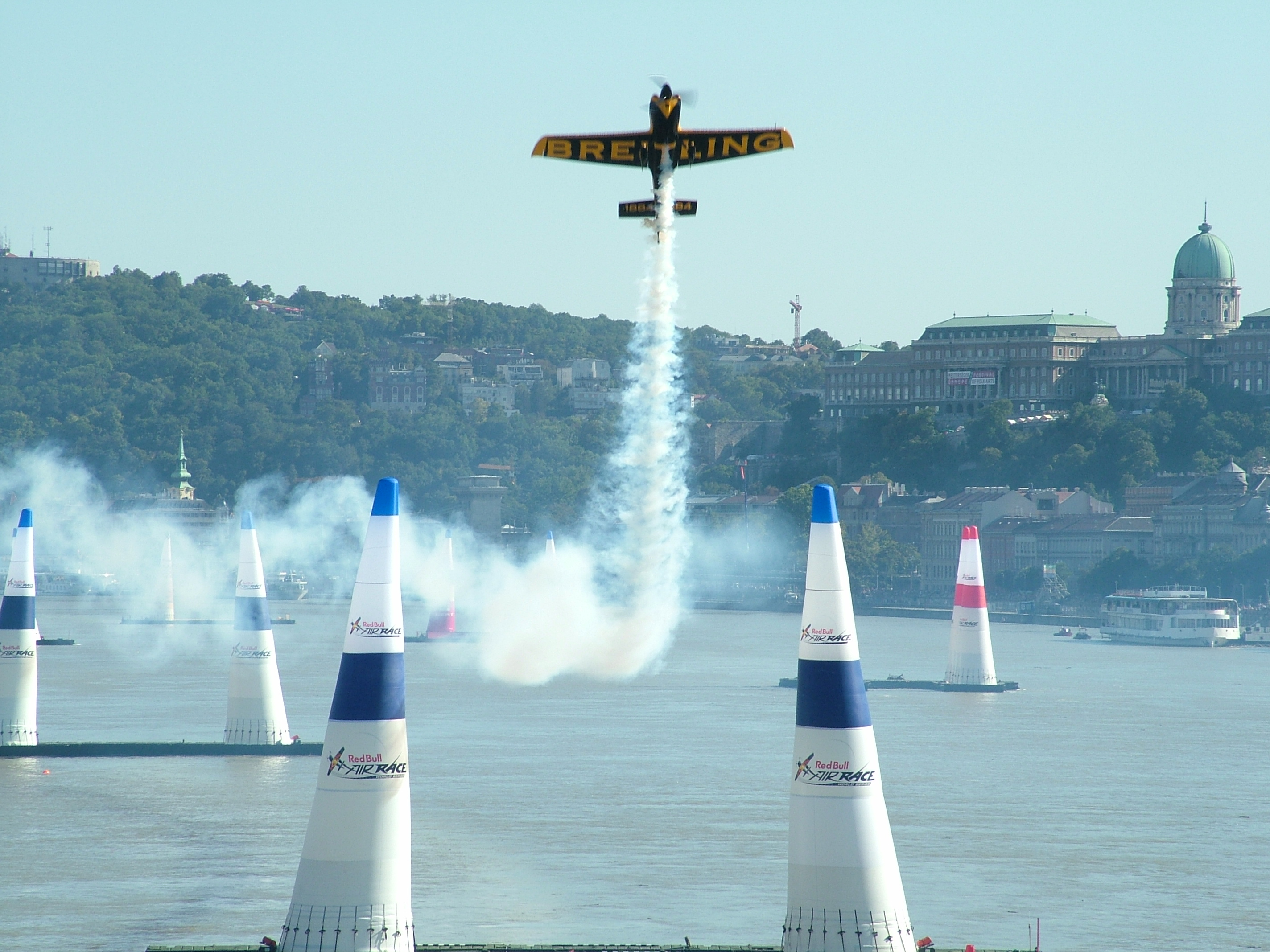 Red Bull Air Race 2008 - Hungarian race (Budapest)